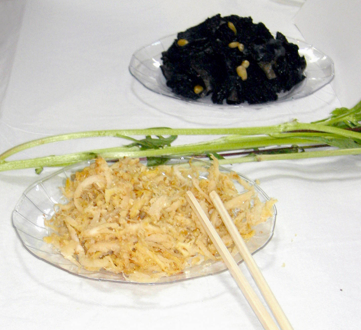 A traditional Korean vegetarian dish of "Dudok root and pine nuts", at Korean Cultural Celebration